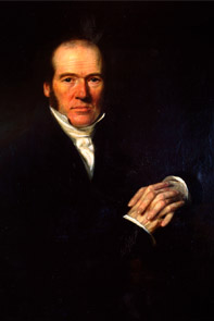 Portrait of Walter Newall, Architect, Dumfries (1780-1863). Artist unknown.